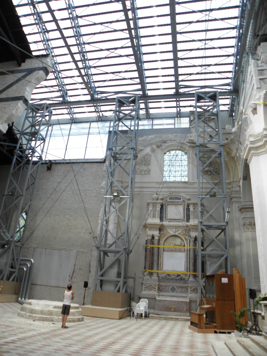 L'Aquila 2010